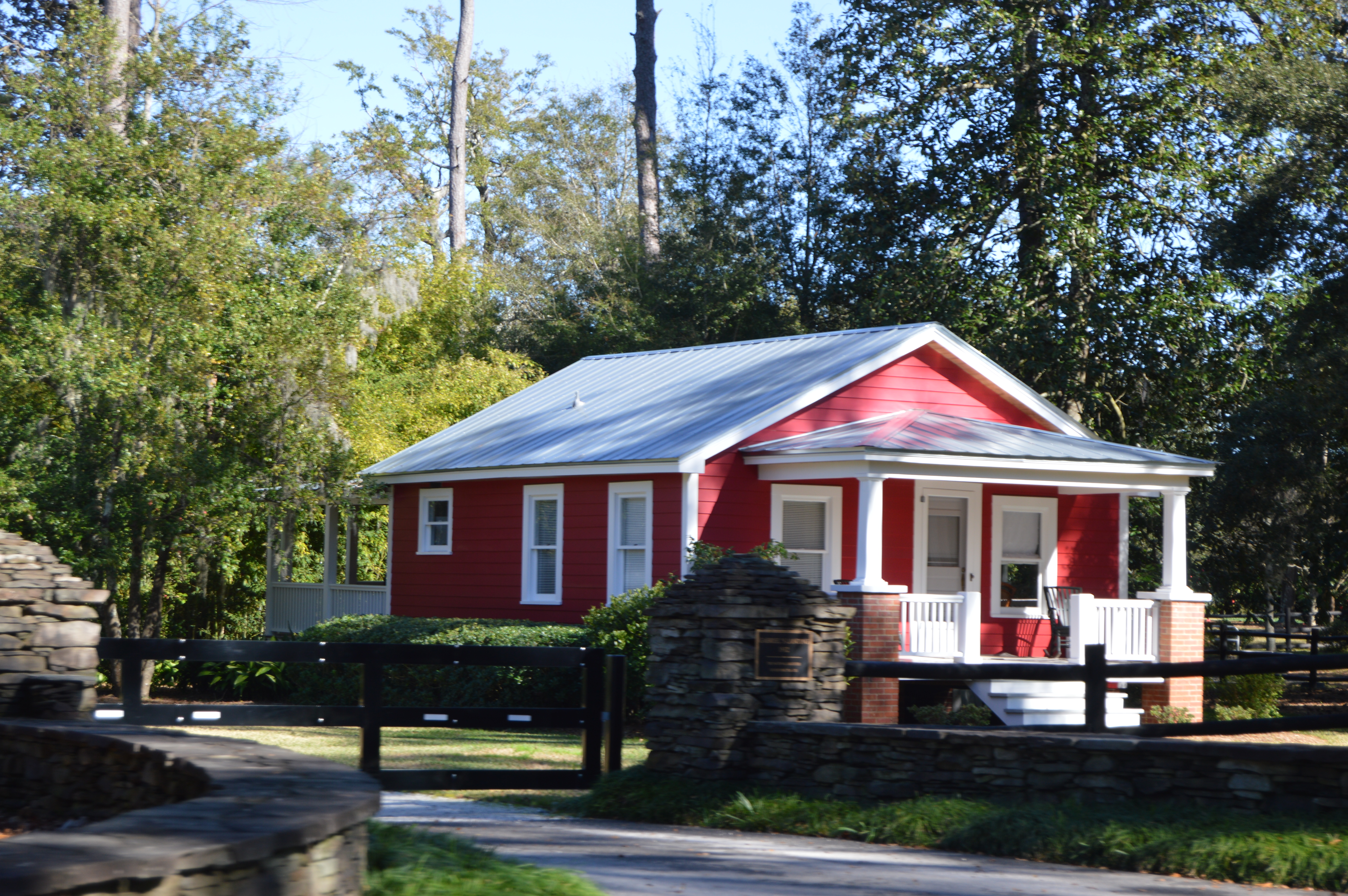 Western angle on the 1936 cottage at Gabriel's Landing, located at 1005 Airlie Road in far eastern Wilmington, North Carolina, United States. The estate is listed on the National Register of Historic Places.